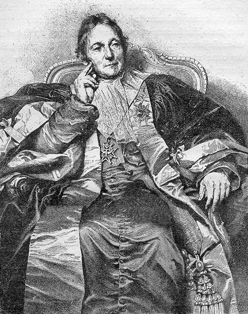 Portrait of French writer and politician Claude-Emmanuel de Pastoret (1755-1840)